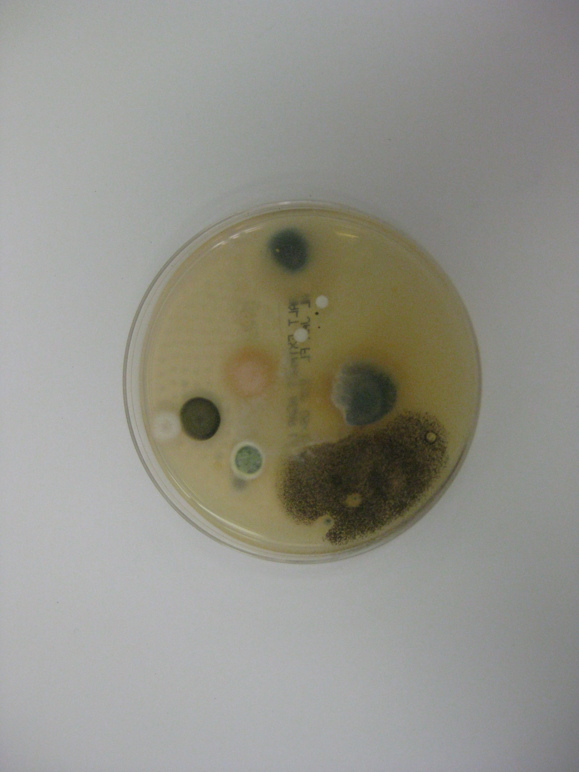 Bioaerosols Isolated from Indoor Environment